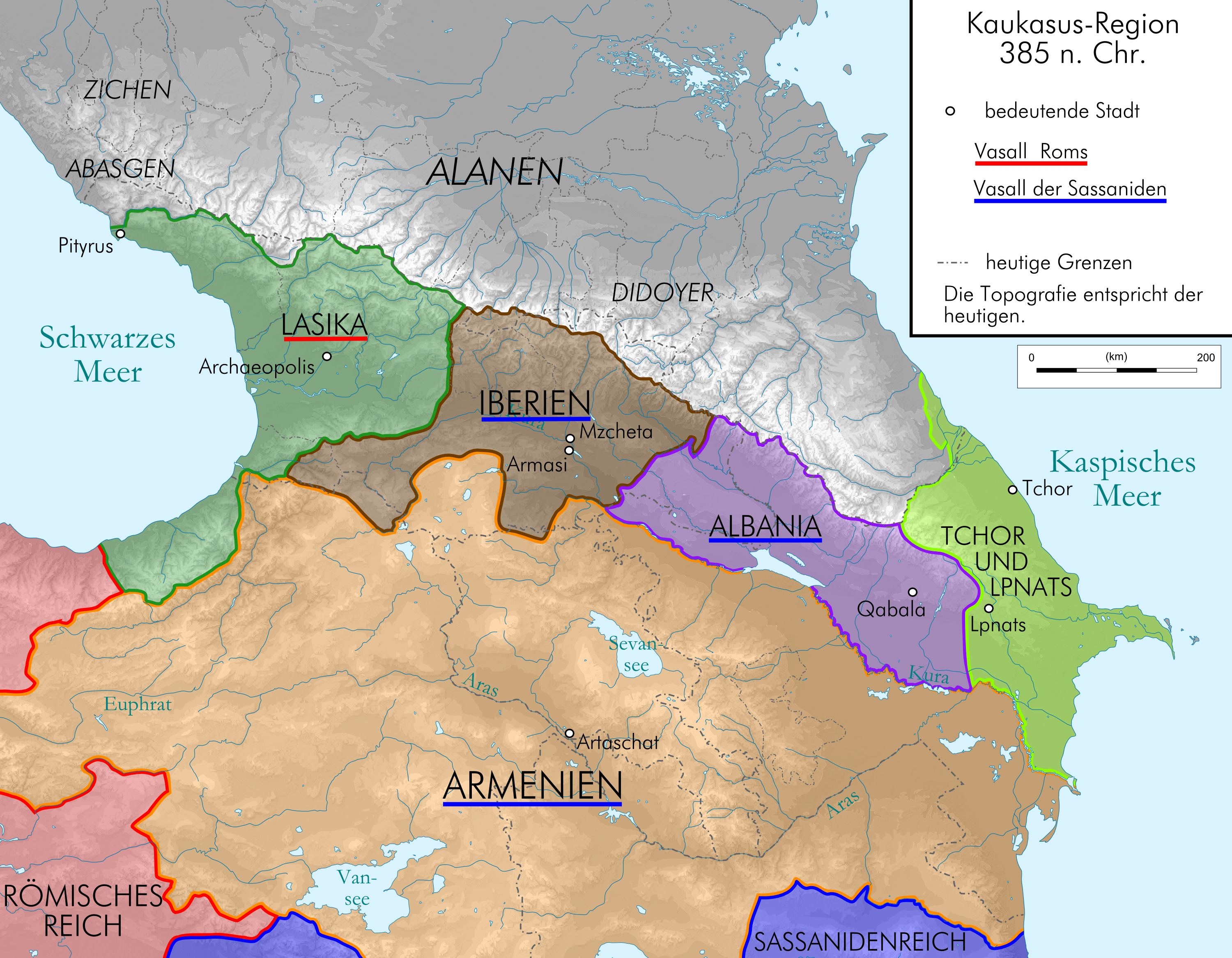 Map of Caucasus around 385 AC in German.